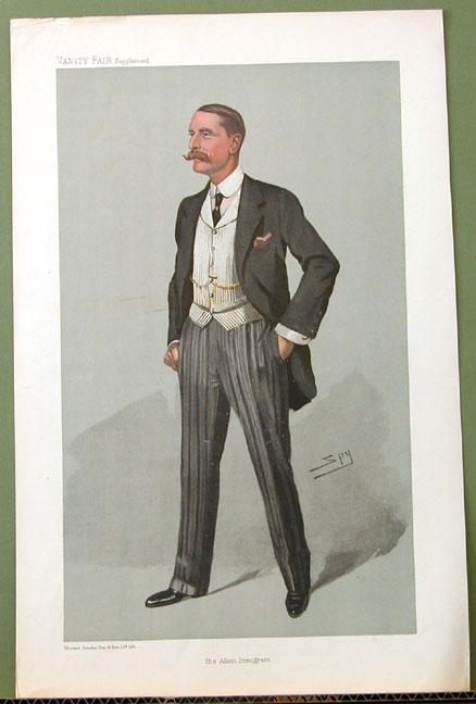 Men of the Day No.0963: Caricature of Maj WE Evans-Gordon MP. Caption reads: "The Alien Immigrant"